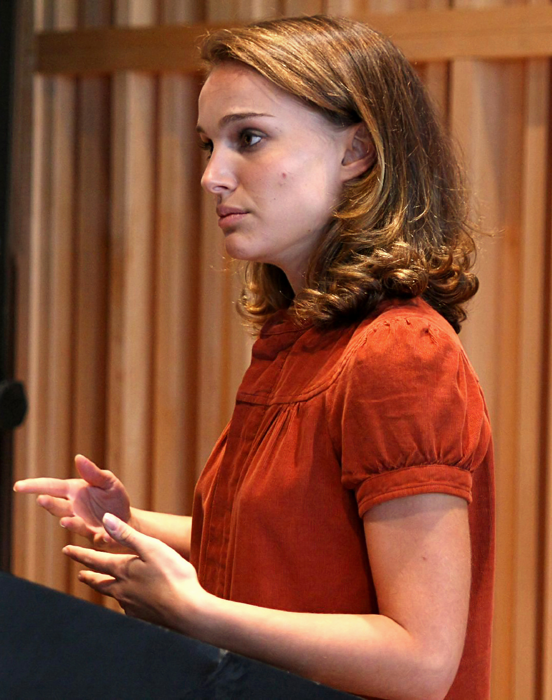 Actress and social activist Natalie Portman at Columbia University discussing her work and role with global microfinance organization FINCA International.